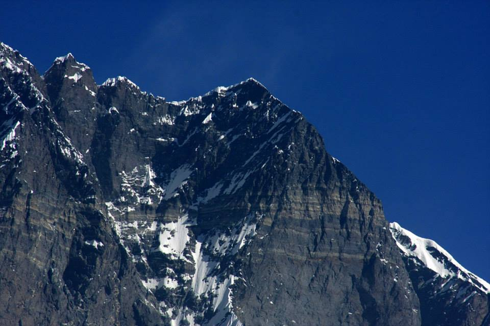 Lhotse Shar (8,400m)